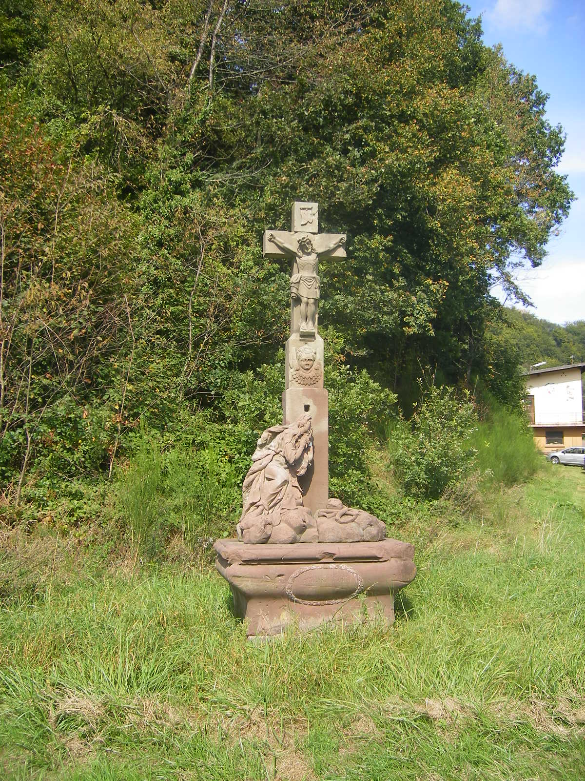 Wayside cross at Petit-Réderching